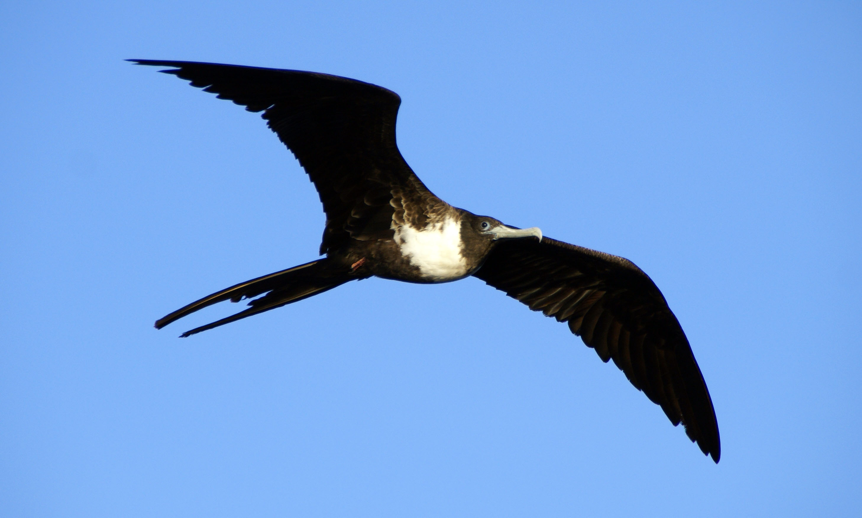 Female Magnificent Frigatebird (Fregata magnificens) flying.